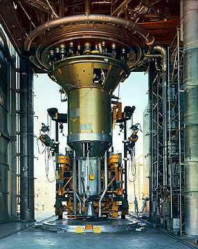 Nevada Test Site - Nuclear Rocket Development Station. Close-up view of an engine and reactor in Engine Test Stand One. The two technicians on the right provide scale.